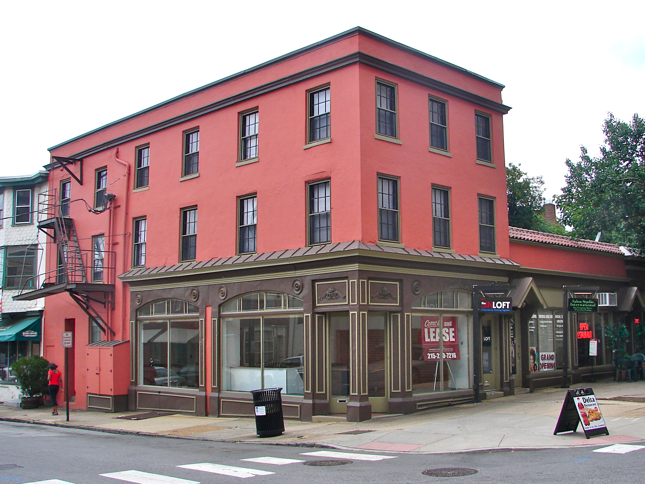 Building in the West 9th Street Commercial Historic District on the NRHP since December 22, 2008. Locations in the district include 111-320 W. 9th St., 901-909 N. Orange St., 825-901 N. Tatnall St., Wilmington, Delaware. This is approx 300 W. 9th - the same or similar style building extends to about 320 West 9th.